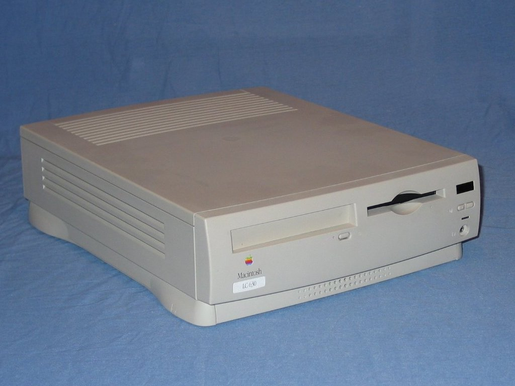 Front view of a Macintosh LC 630